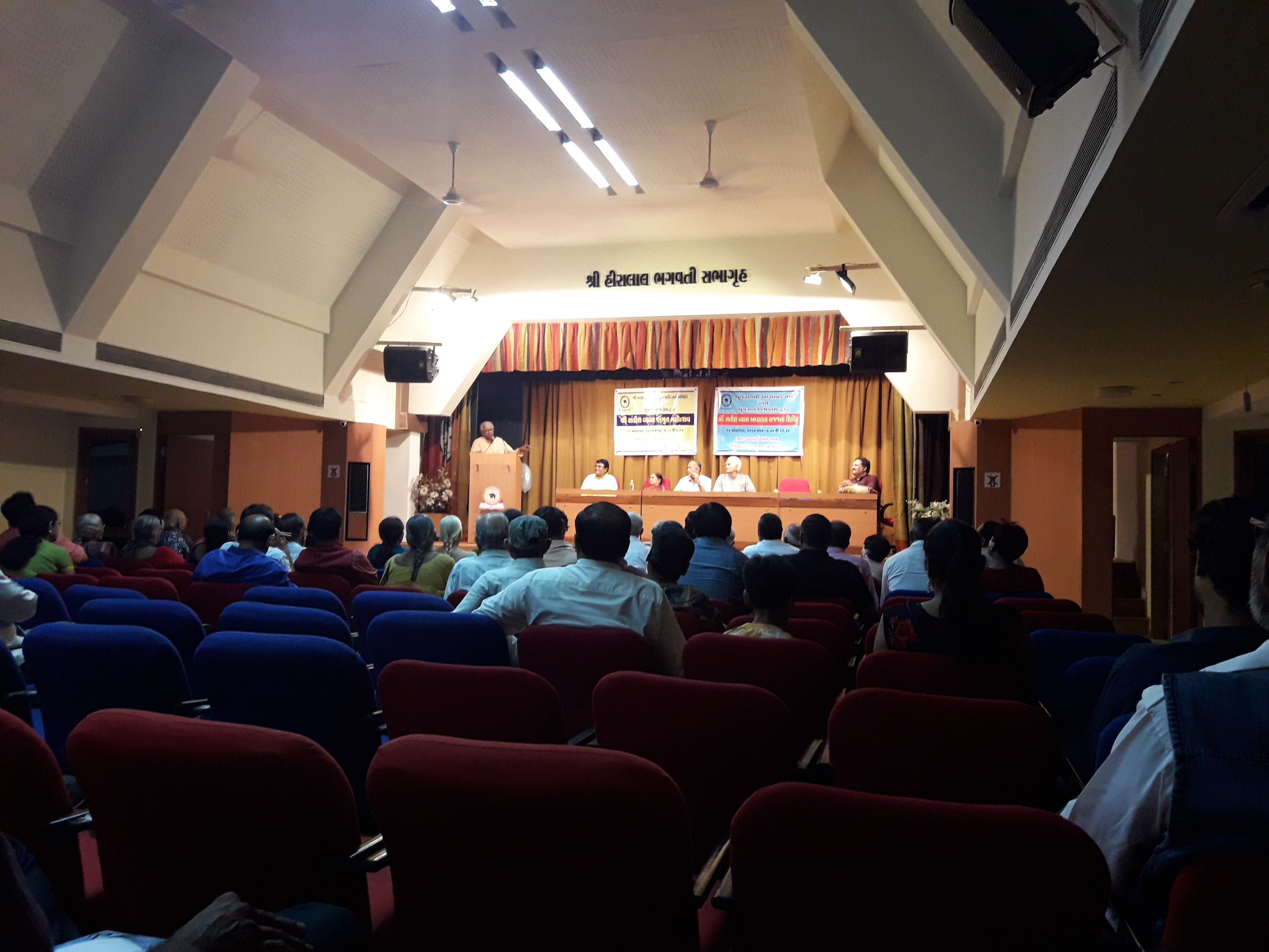 Shri Hiralal Bhagvati Sabhagruh (Assembly Hall) located at Gujarati Vishwakosh Trust, Ahmedabad.